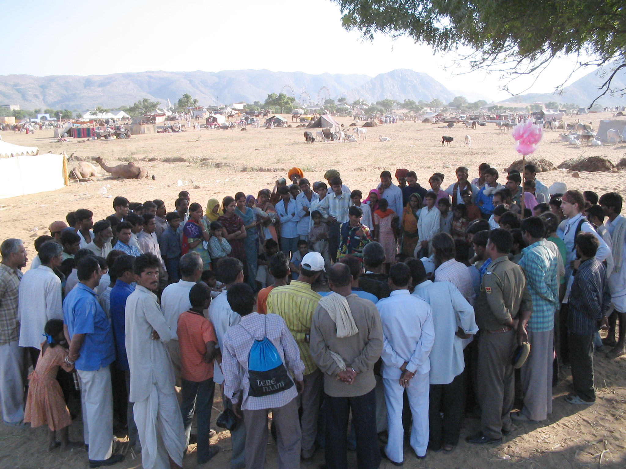 Magic show. Rajasthan, India.